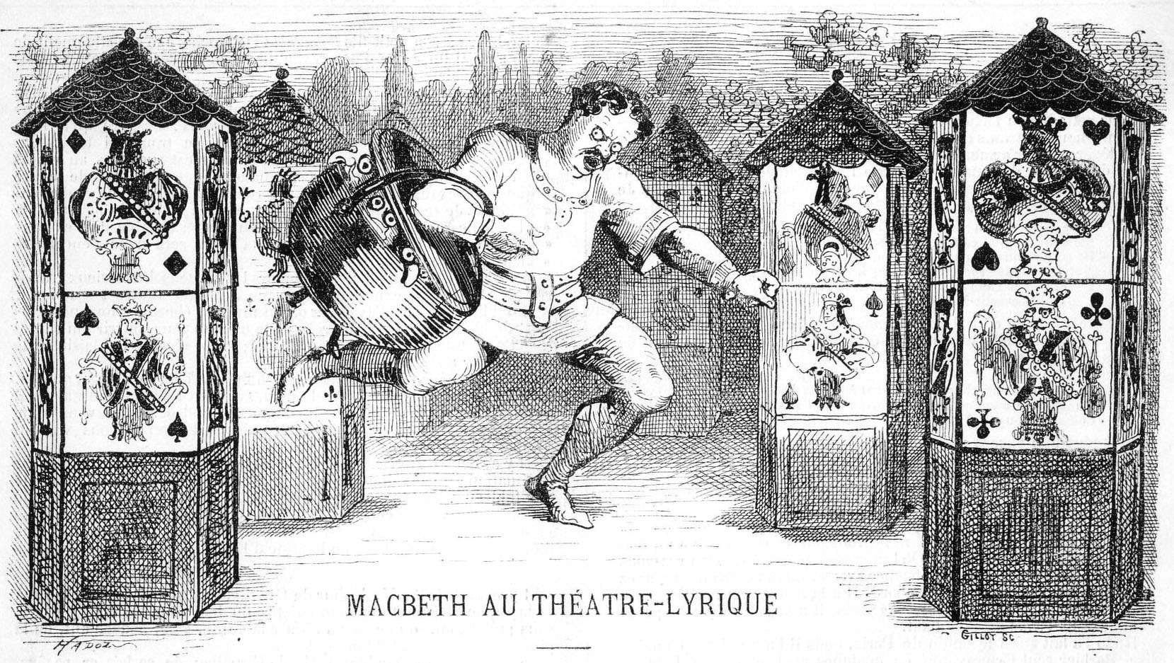 Caricature engraving showing the French baritone Ismaël in the title role of Verdi's Macbeth as performed at the Théâtre Lyrique in Paris beginning on 21 April 1865.